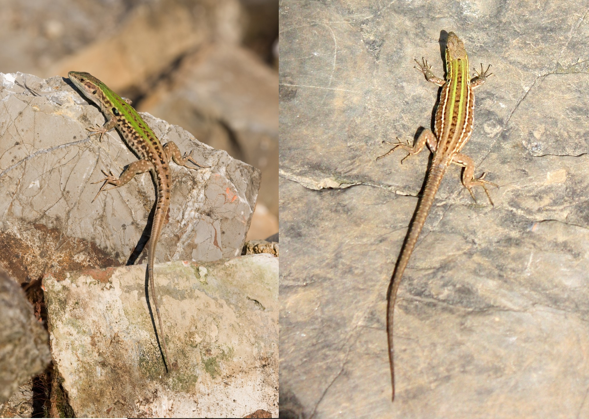 The Italian Wall Lizard or Ruin Lizard (Podarcis sicula) is a species of lizard in the Lacertidae family. P. sicula is found in Bosnia and Herzegovina, Croatia, France, Italy, Serbia and Montenegro, Slovenia, Spain, Switzerland, Turkey, and the United States. P. sicula belongs to the Squamata family of lizards and it is the most abundant lizard species in southern Italy.